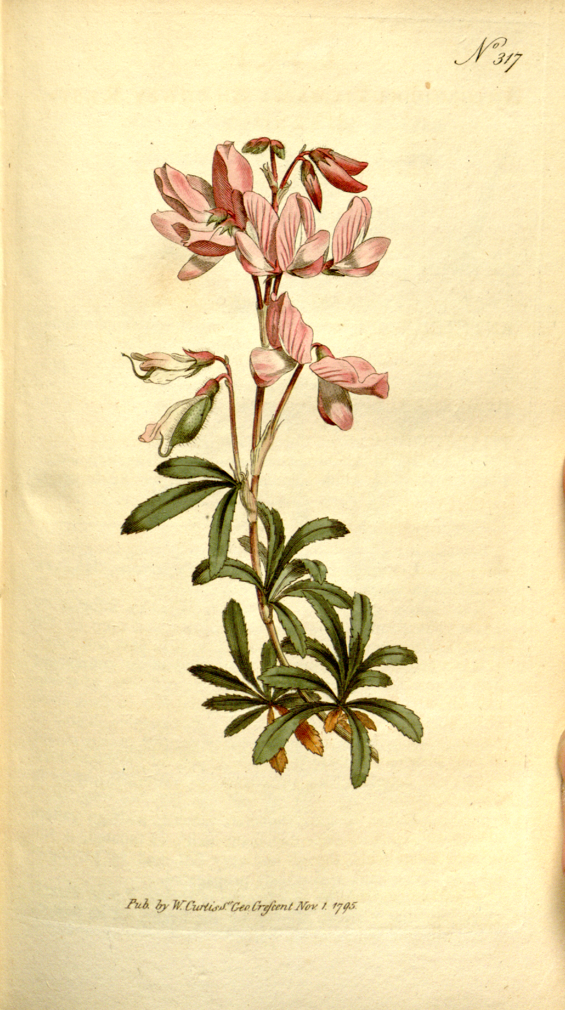 This is a plate from The Botanical Magazine, Volume 9.